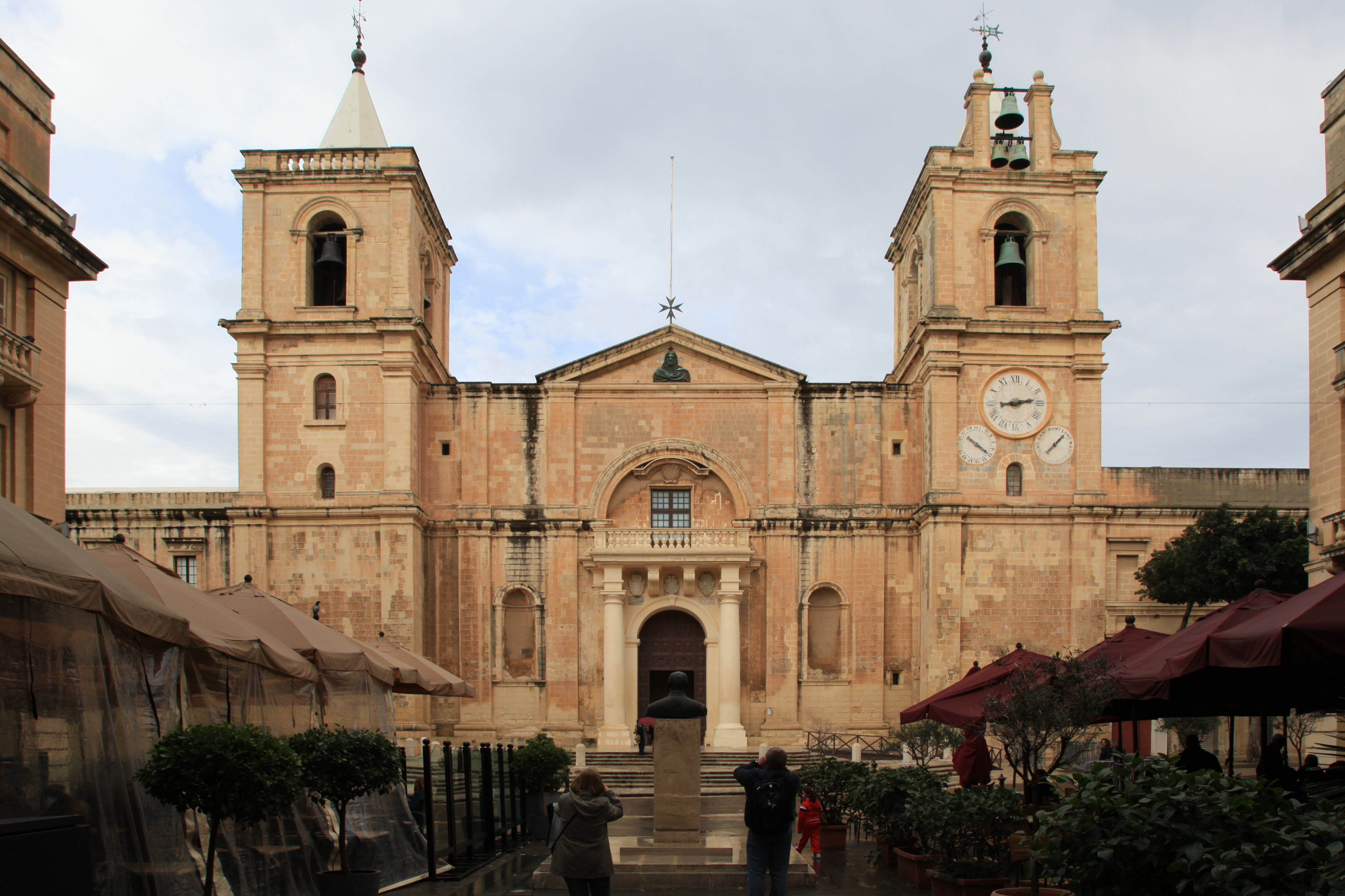 Misraħ San Ġwann and St. John's Co-Cathedral, Triq San Ġwann in Valletta, Malta